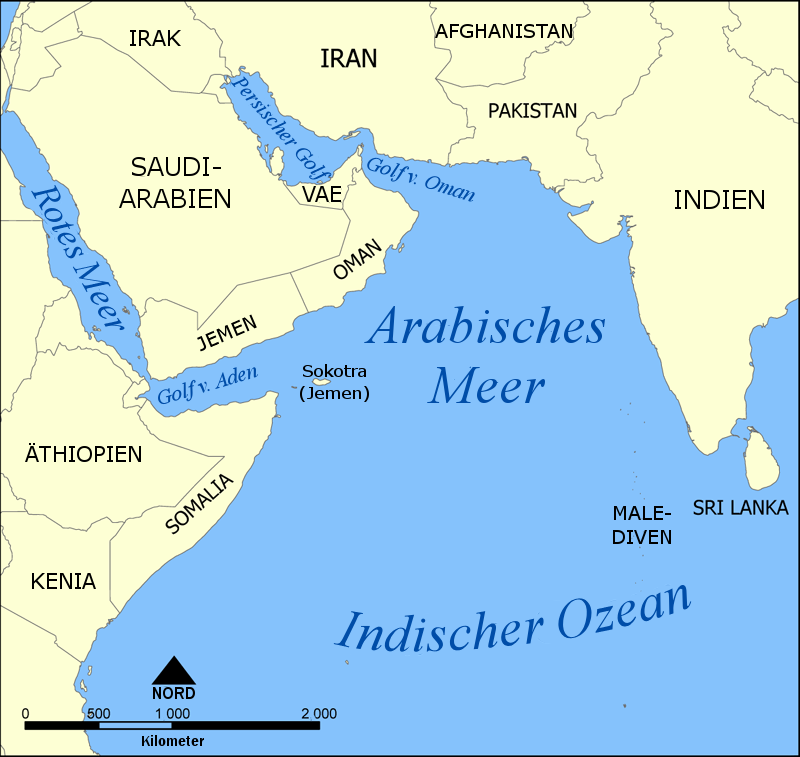 A map showing the location of the Arabian Sea in the Indian Ocean. Created by , 2005.